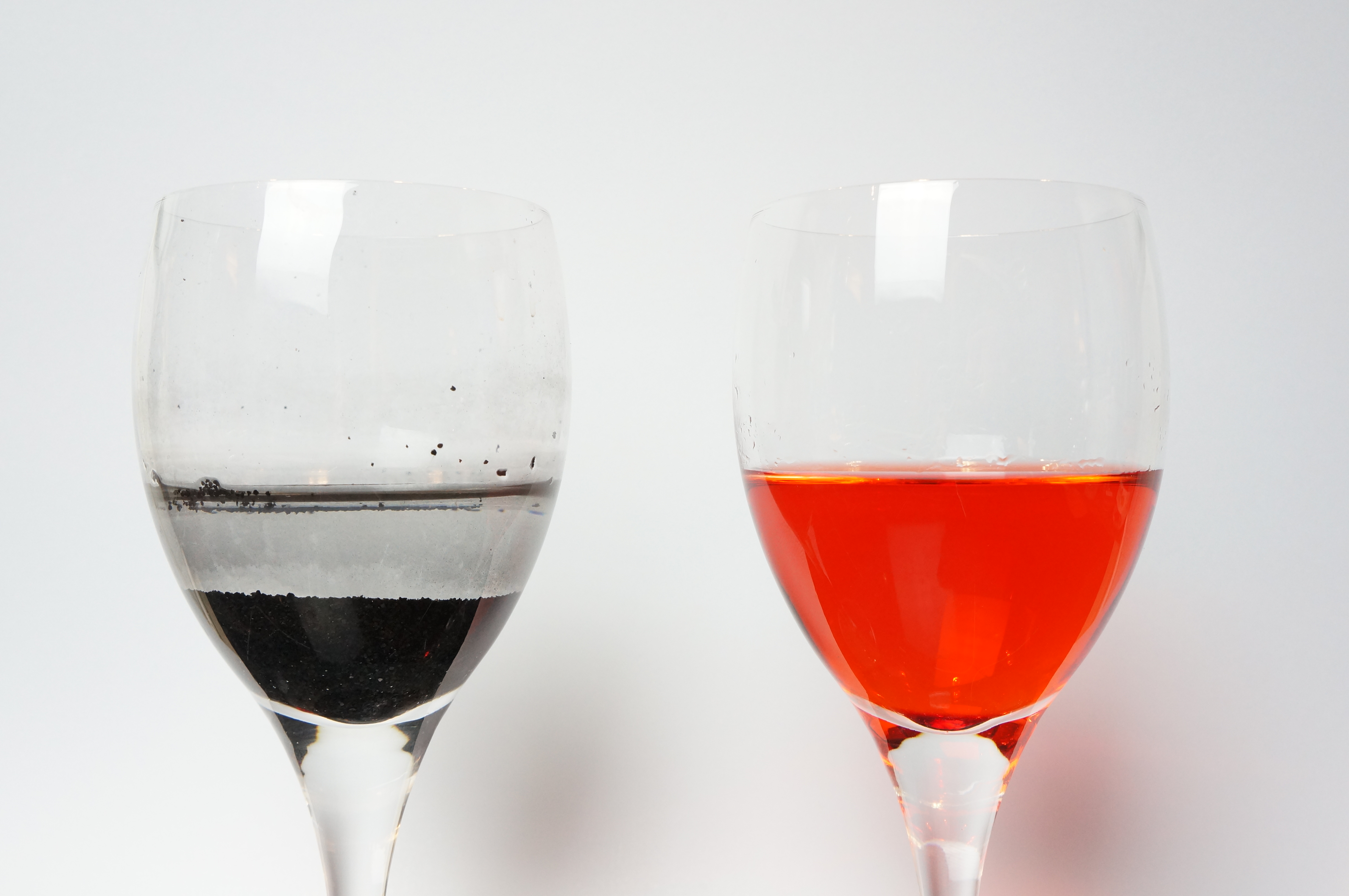 The activated carbon in the left glass has removed the red dye that is still in solution in the right glass.